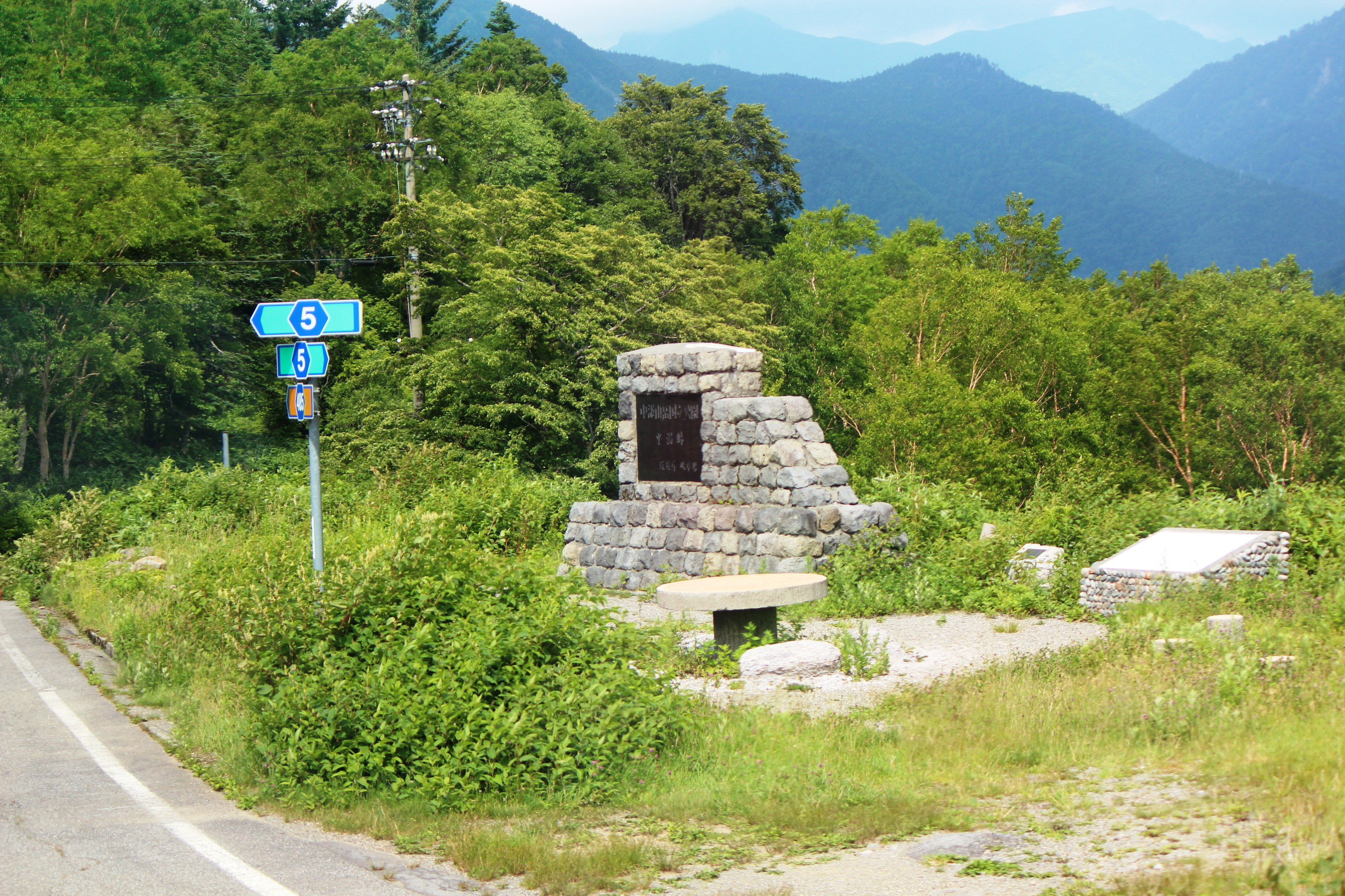 Hirayu Pass, Takayama, Gifu pref., Japan.